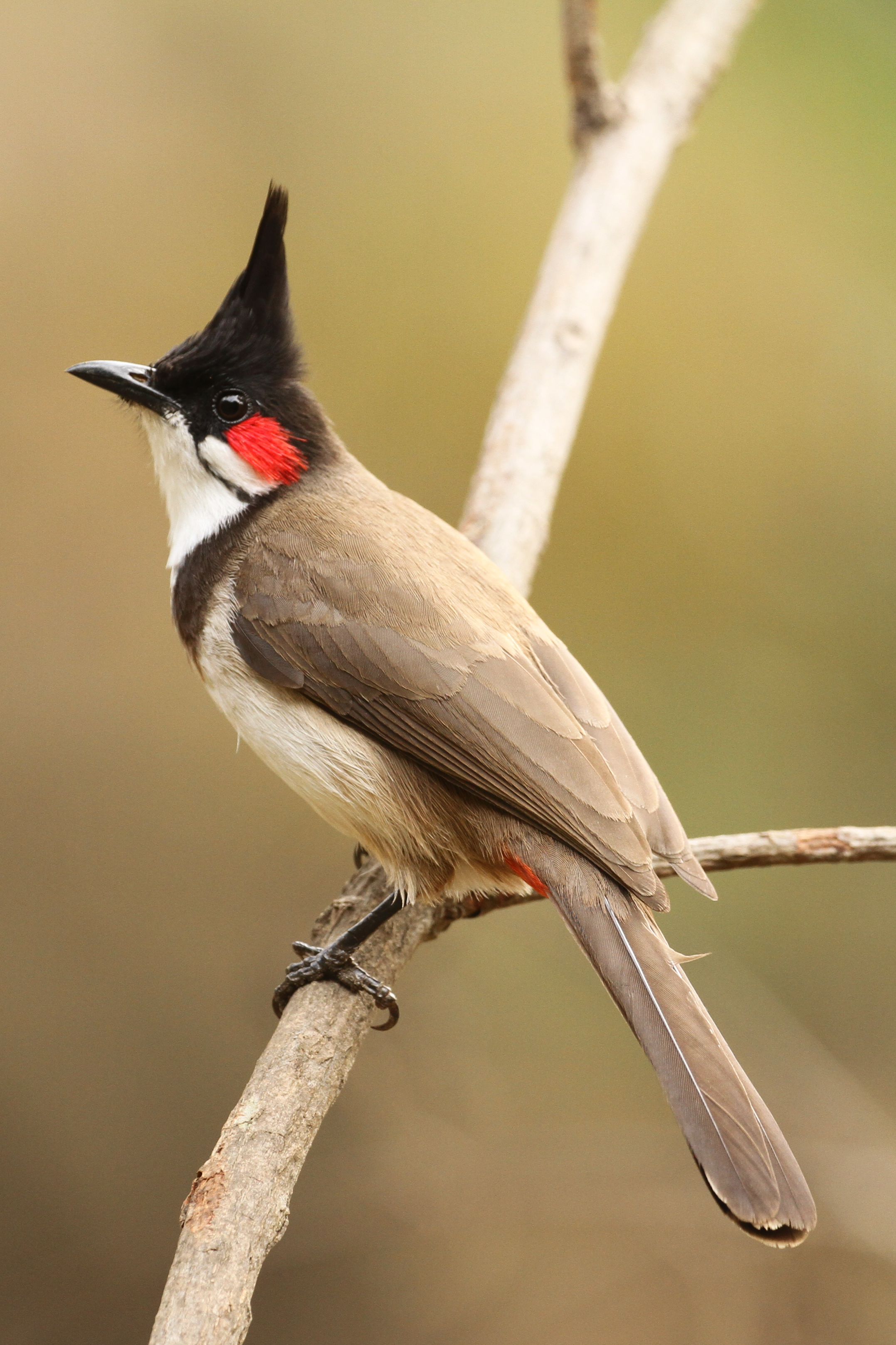 Birds of India